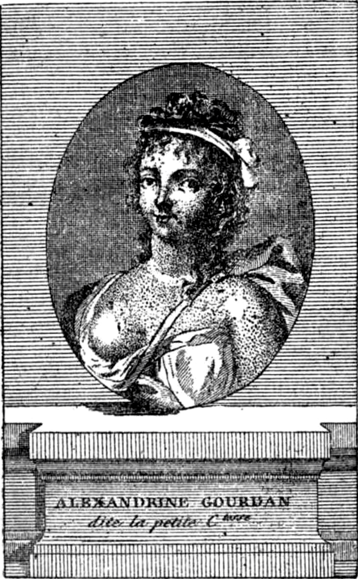 Marguerite Gourdan (1730-1783), so called la petite comtesse, 18th-Century French Madame.